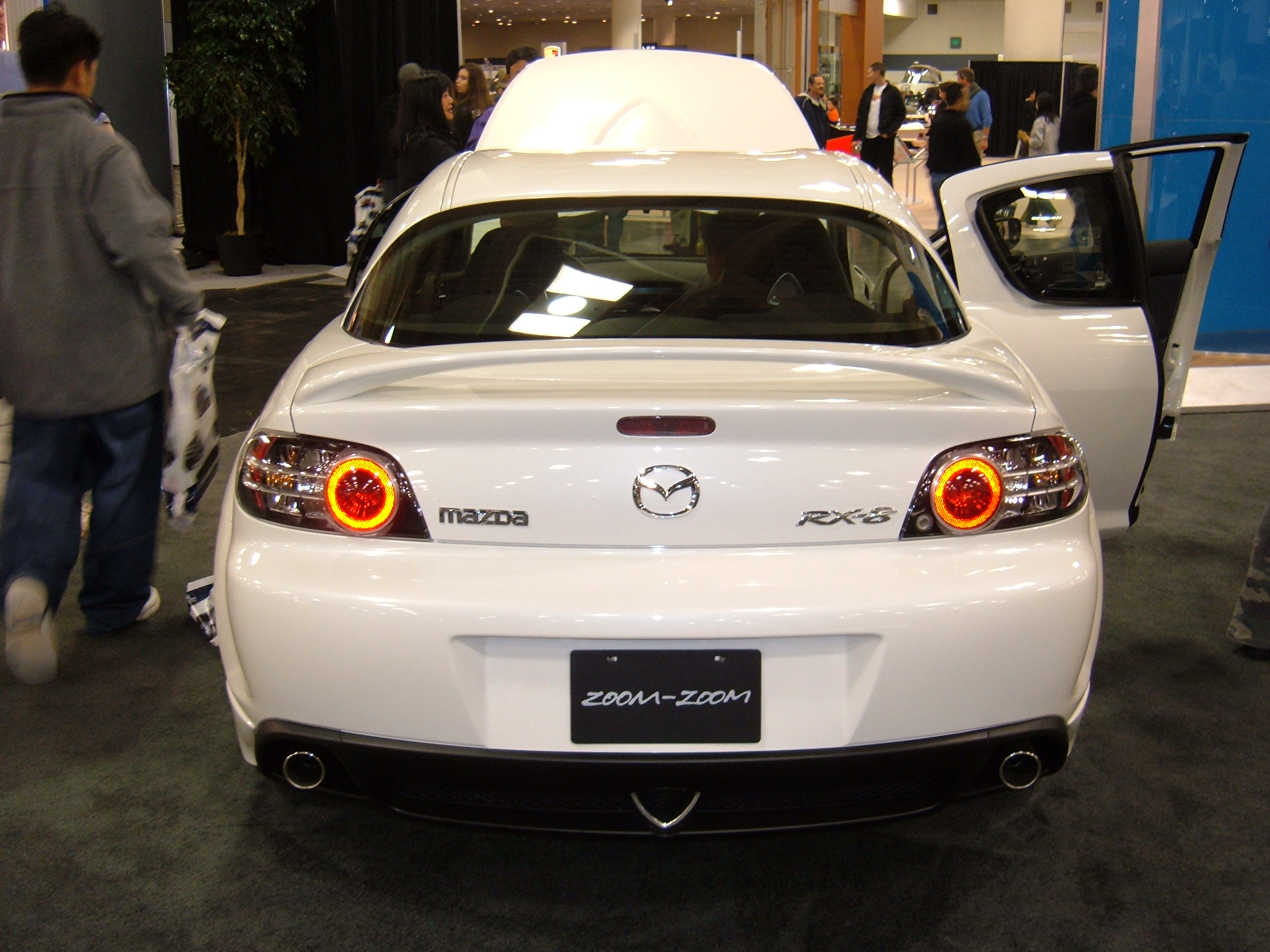 A 2005 Mazda RX-8 at the 2004 San Francisco International Auto Show.